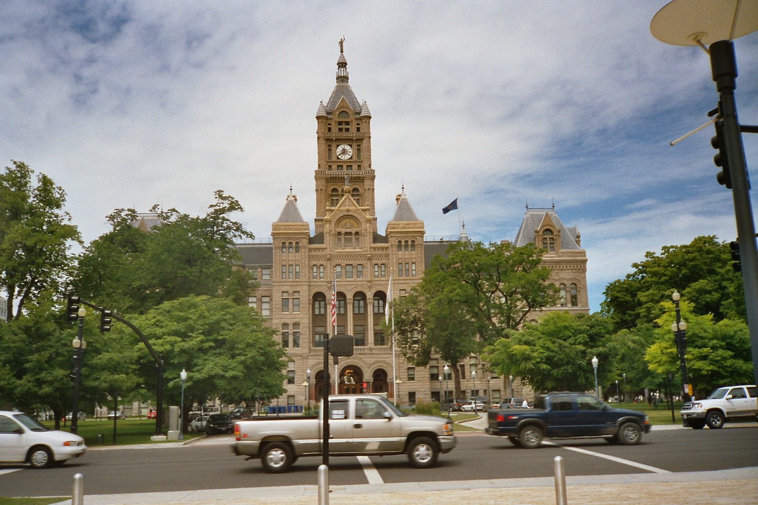 City and County Building Salt Lake City nr. Washington Sqare